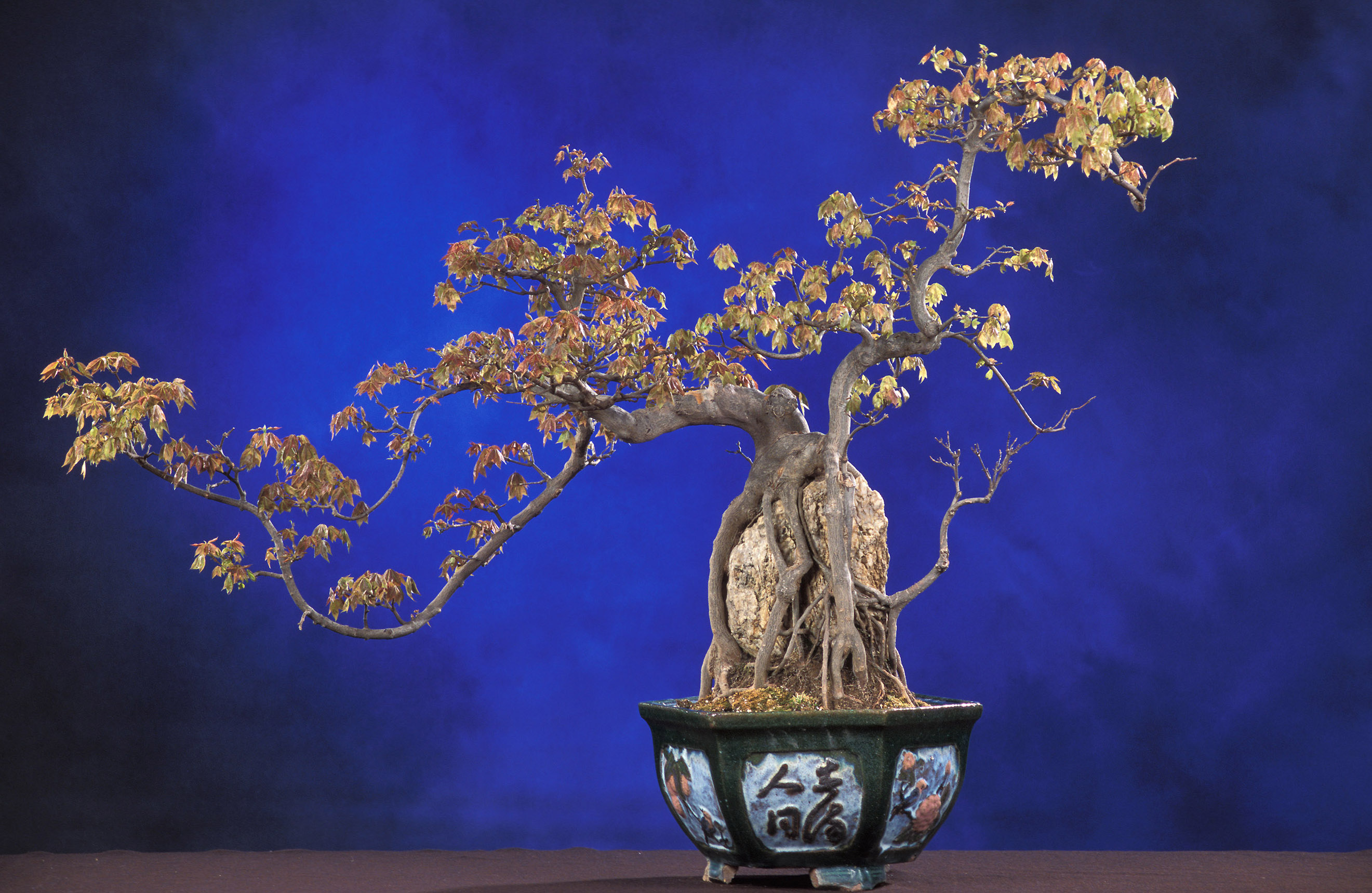 Part of the penjing collection at the National Bonsai and Penjing Museum, this trident maple, Acer buergerianum, has its roots growing over a rock and its foliage and stems trimmed in the shape of a dragon.